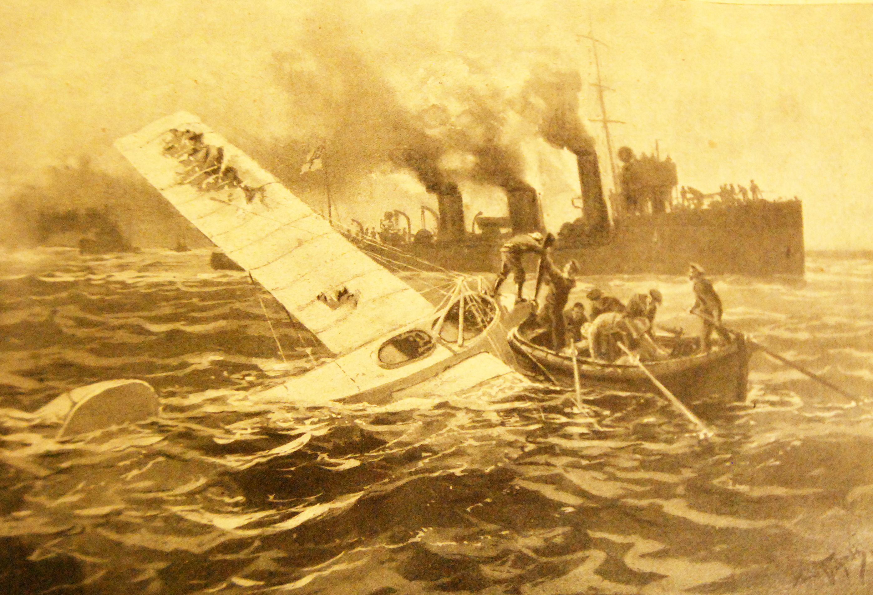 Lot-3632-4: WWI-German Activities. Patrolling the sky for English flyers. Artwork by Hans Bohrdt. Halftone photograph. Courtesy of the Library of Congress. (2017/03/03).